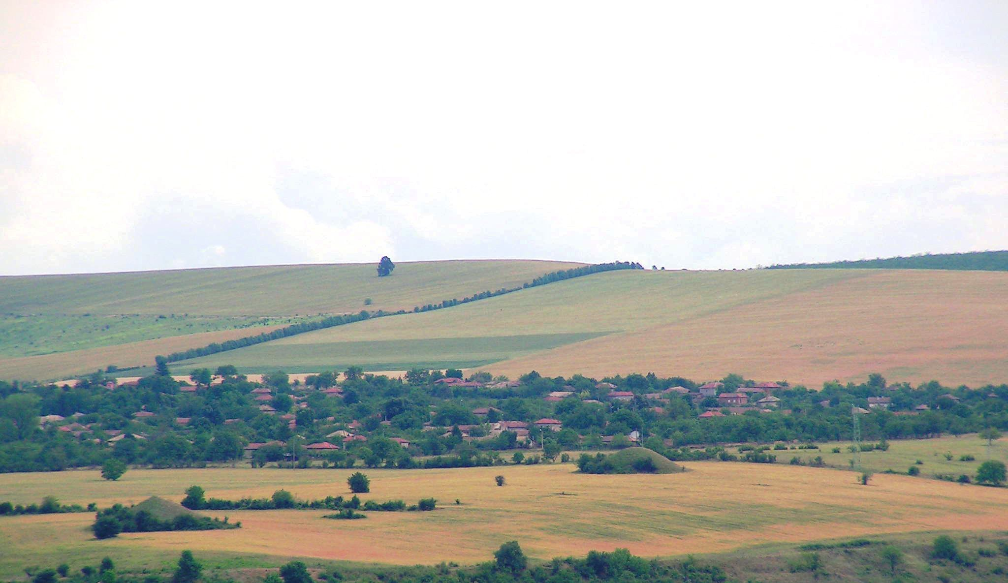 View at village Karantsi, Bulgaria